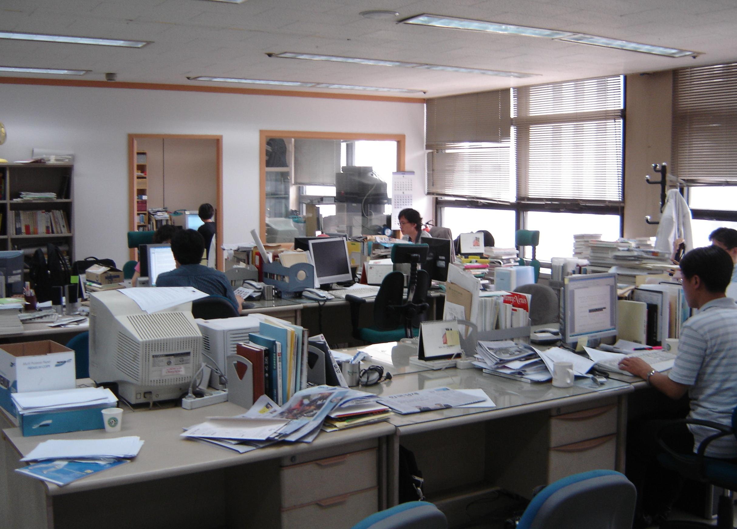 OhmyNews news room in Seoul, South Korea.